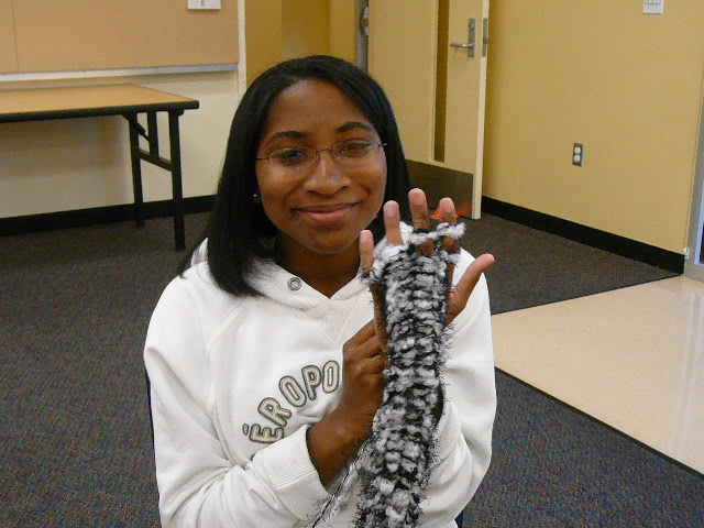 TeensReach member Christina makes a scarf using only yarn and her fingers! - finger knitting